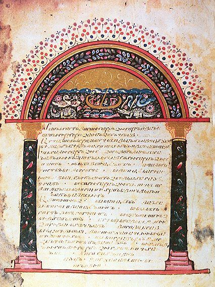 Queen Mlk'e Gospel. Venice, Mekhitarian Library, San Lazzaro, Ms. 1144/86